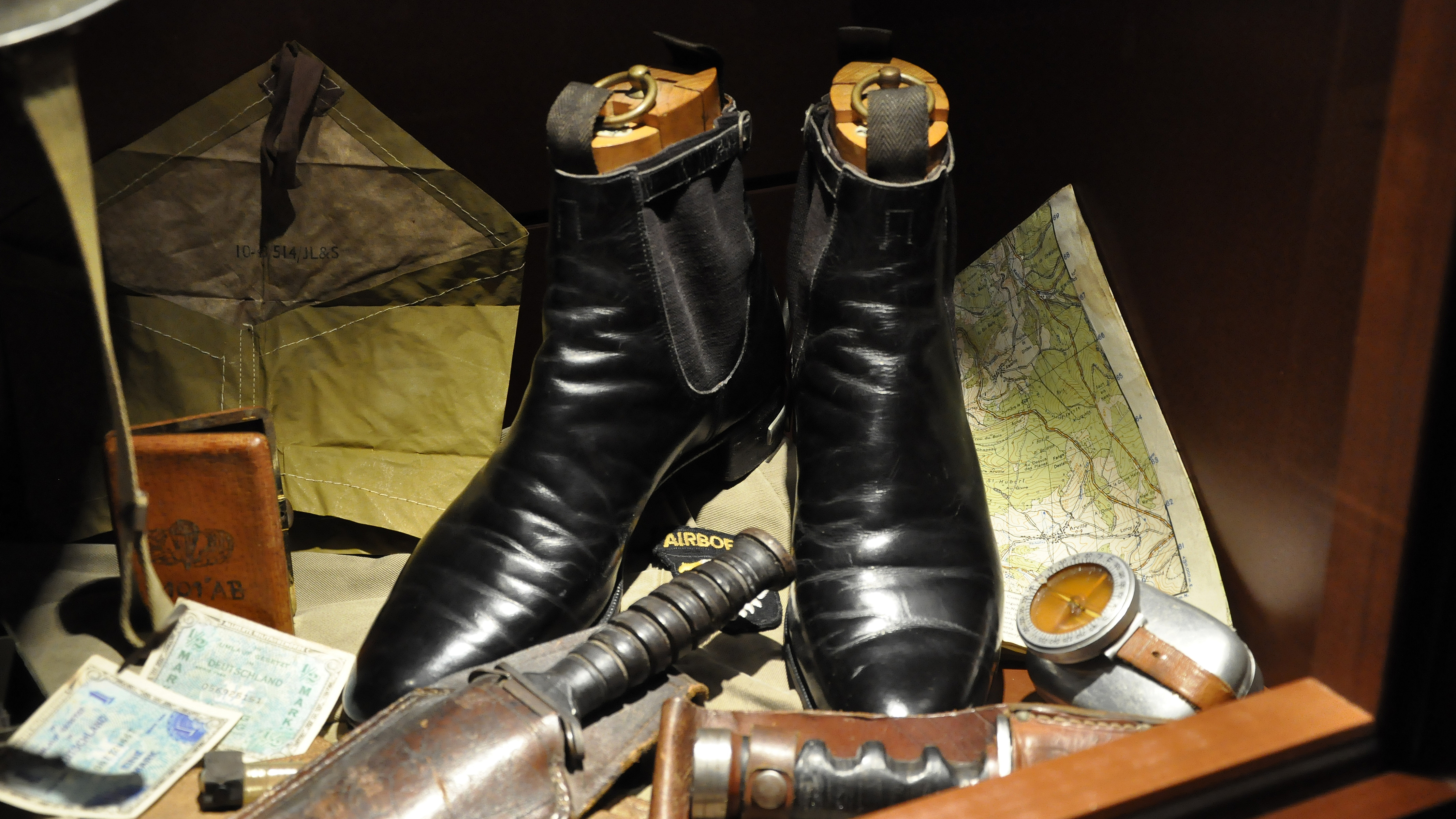 Boots of general George Patton at "Baugnez 44 Historical Center" Baugnez, Malmedy Belgium